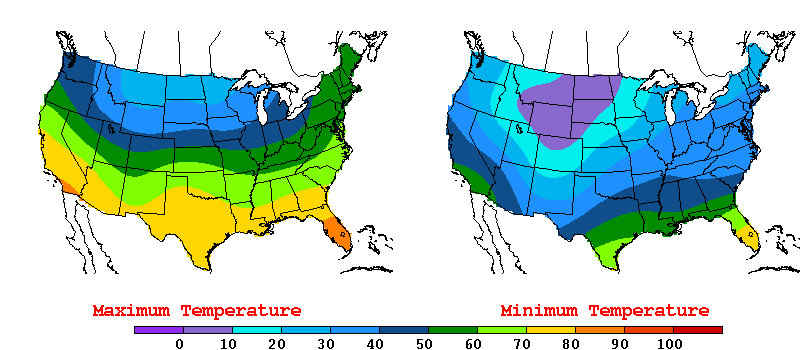 A color minimum-maximum temperature map for 21 November 2015.